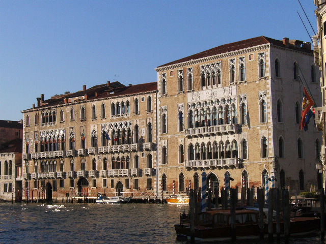 Cà Foscari (right) and Giustinian palaces in Venice shot from "San Toma'" landing station for water buses